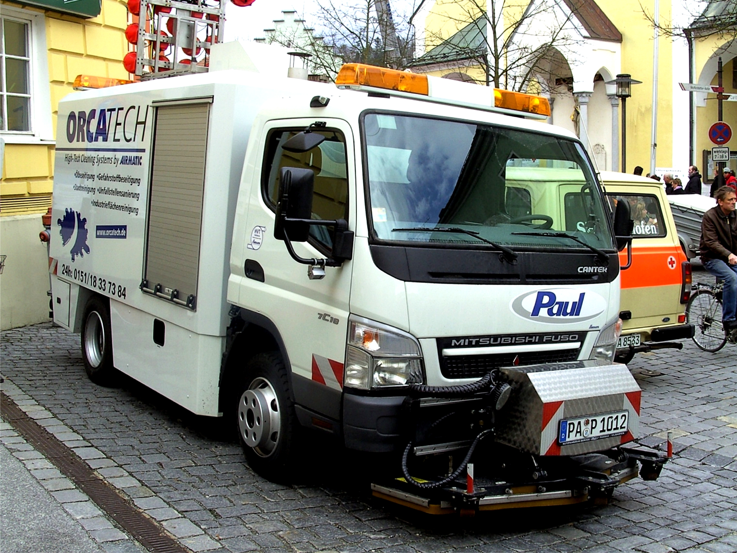 Fuso Canter 7th generation street sweeper trucks in Vilshofen an der Donau, Germany, Europe.